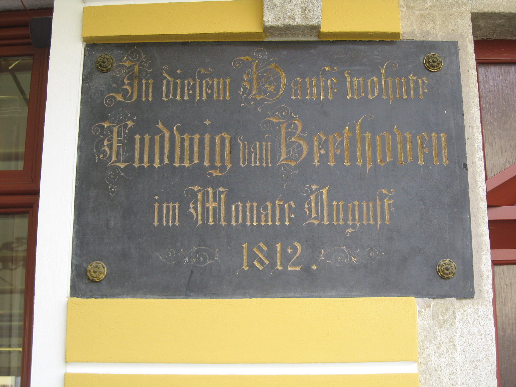 Plaque on the house in Františkovy Lázně (Franzensbad), where lived Beethoven in the summer 1812